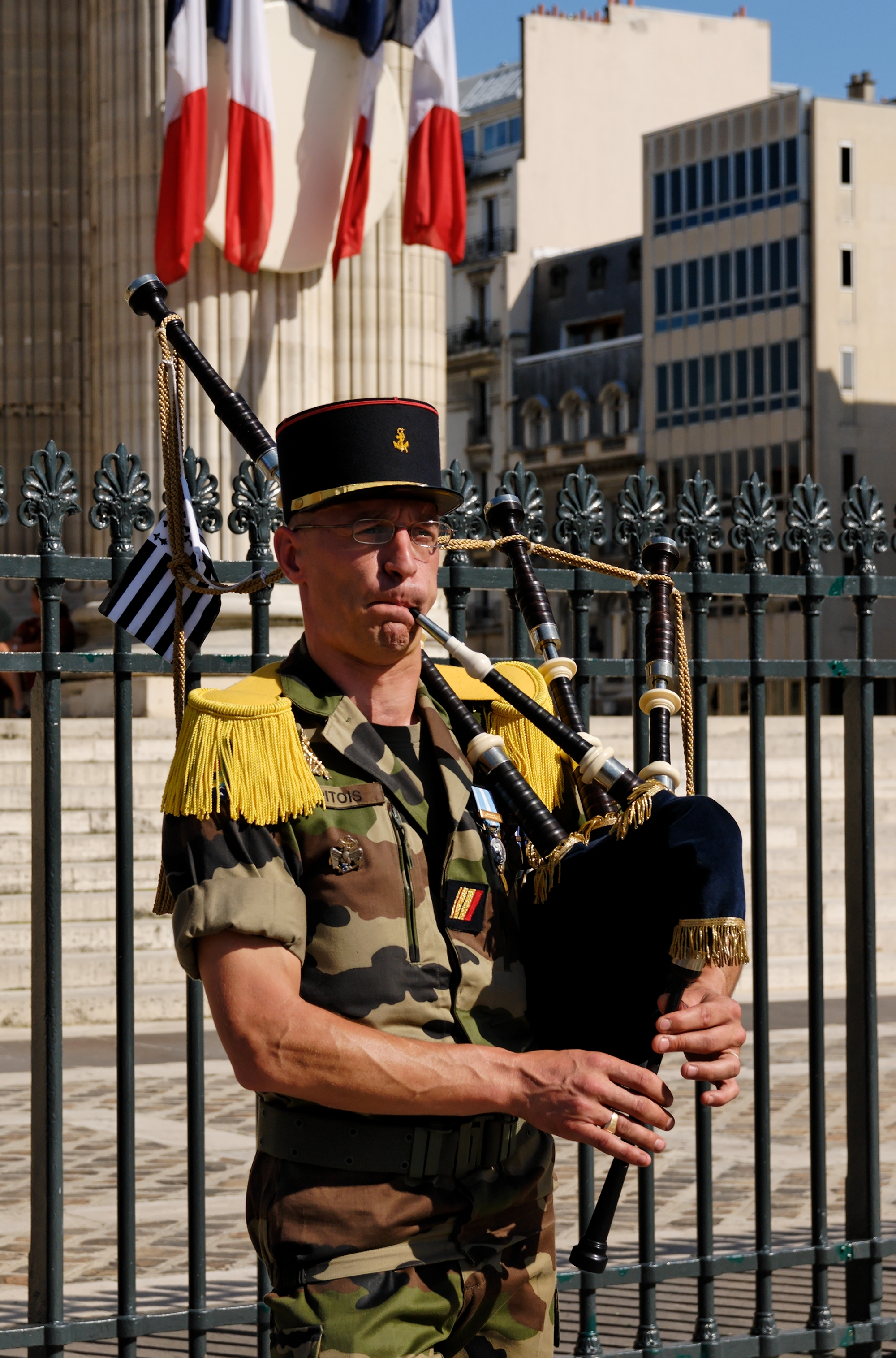 A soldier of the 3e RIMa (a unit of the French marine troops) playing the bagpipes in front of the Panthéon in Paris, during the ceremonies of Bastille Day.